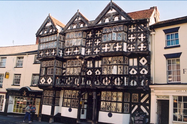 Author: Webber Source: "own work" Date: 2002